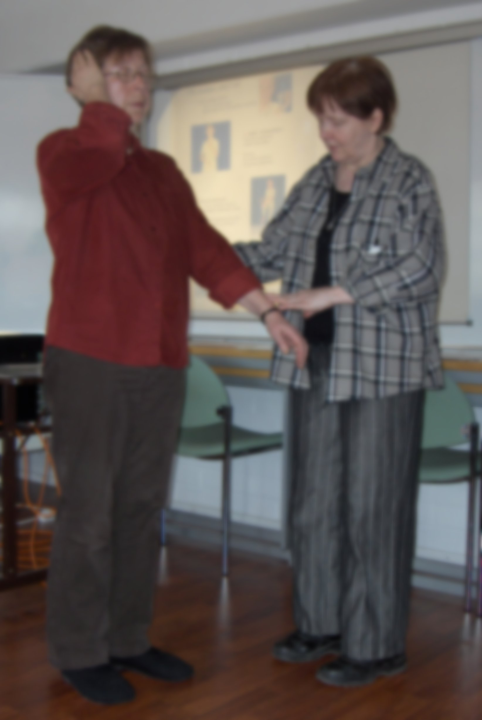 An energy kinesiologist showing how to do a muscle test to diagnose dominant brain hemisphere.